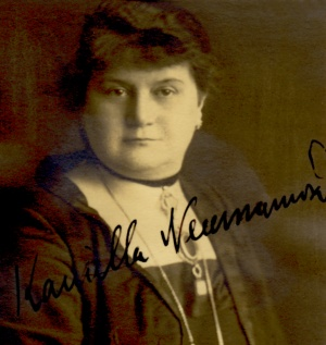 Kamilla Neumannova (1874-1956), Czech publisher, passport photograph